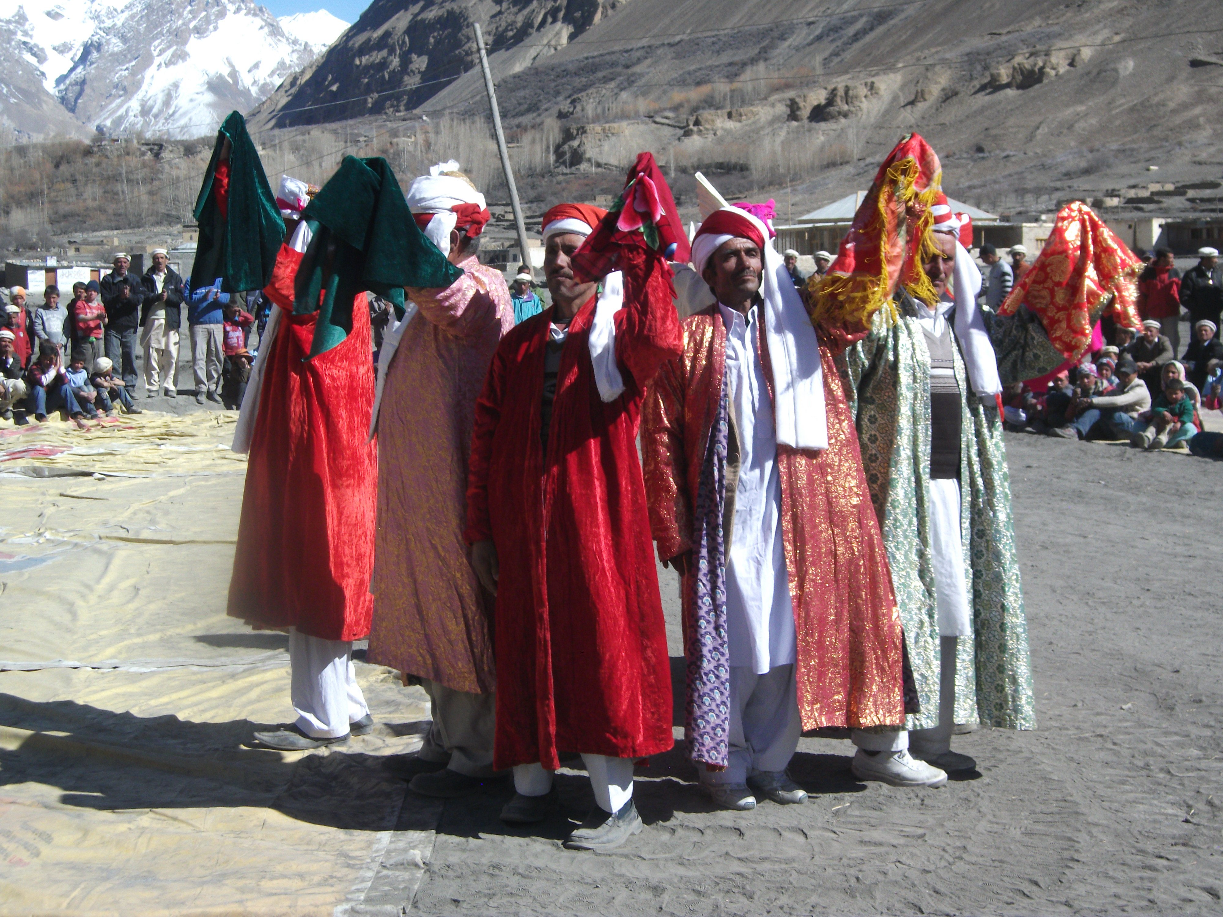 Silk Route Caravan depicts the traditional caravan from China to India, a cultural performance that remains only in the Shimshal valley. The performance entails a narration in the form of a dance, reincarnating traders from olden times who would travel with their trade goods and gather from different areas to share their stories in the form of rubbayat.